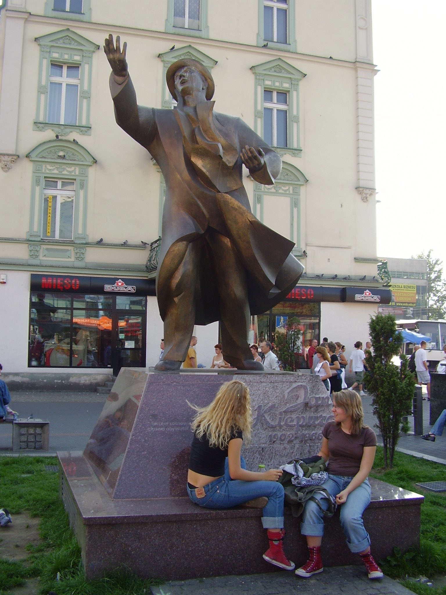 Jan Kiepura monument in Sosnowiec